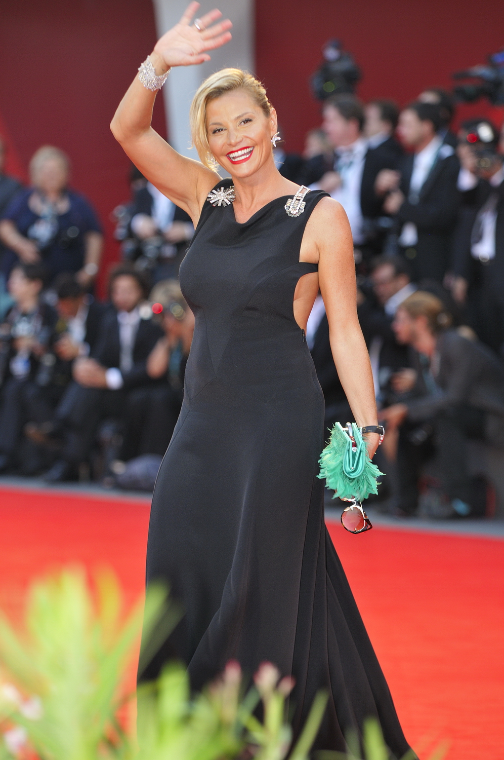 Simona Ventura at the 2009 Venice Film Festival